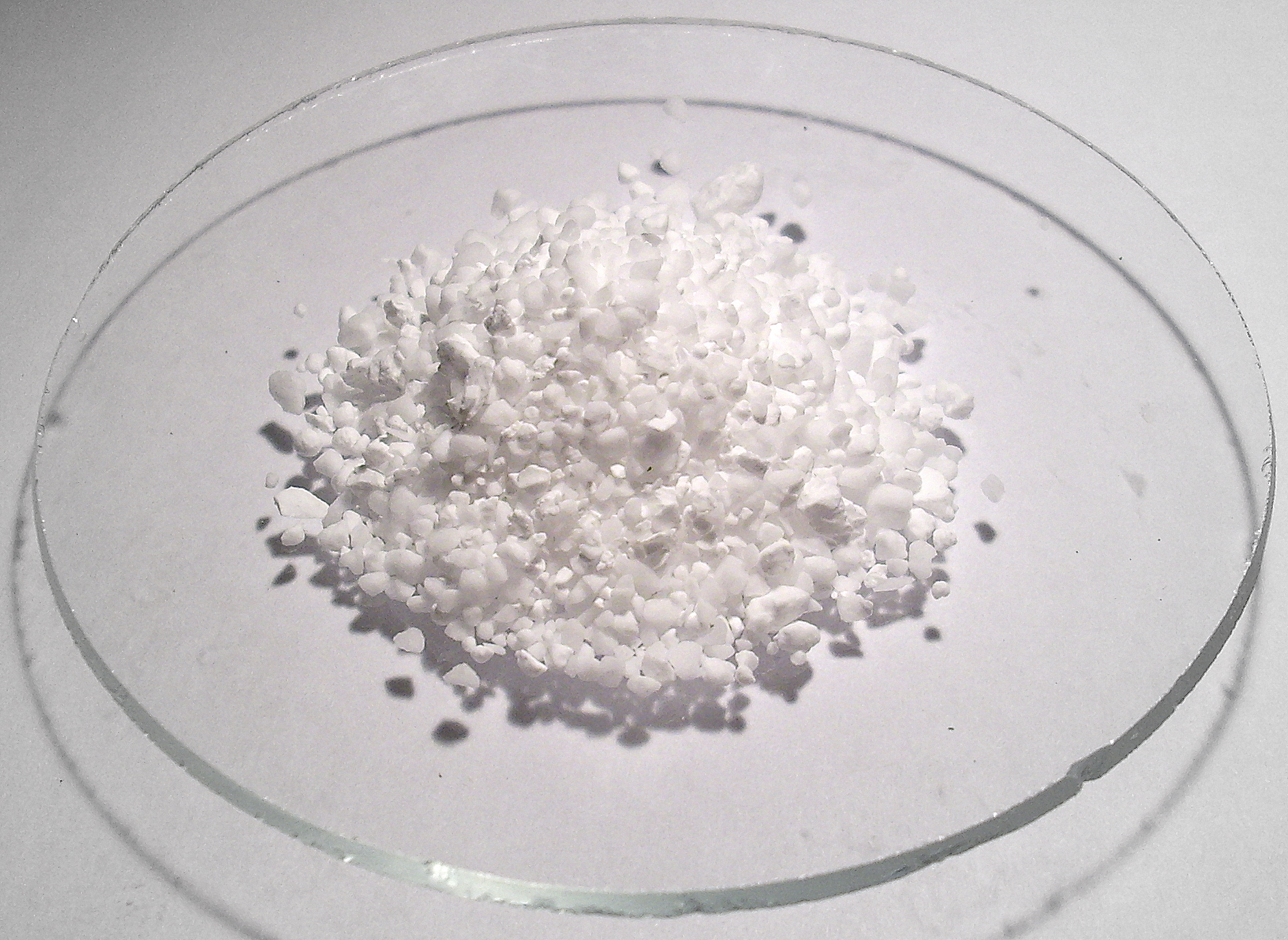 Lithium borohydride Li[BH4]